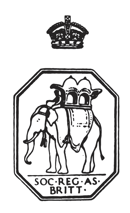 Royal Asiatic Society Logo